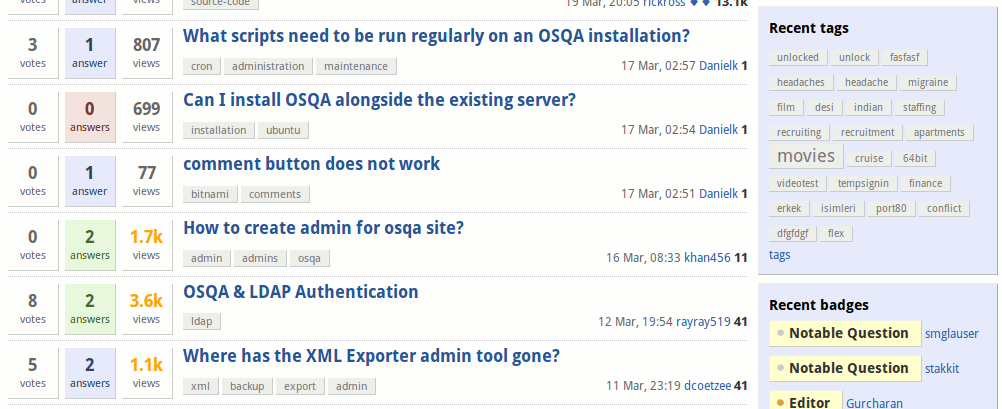 Screenshot of OSQA. Software GPLv3+, content CC-BY-SA 3.0.